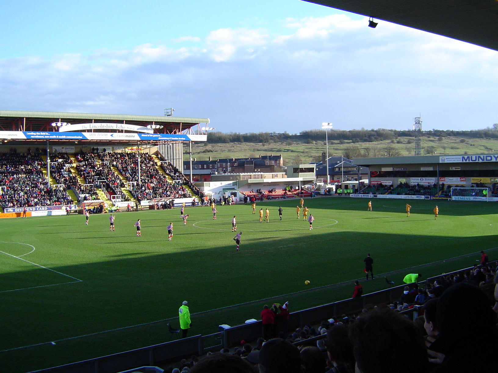 Sincil Bank Stadium, Lincoln. Taken before kickoff at the local derby between Lincoln City F.C and Boston United F.C.